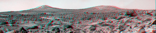 Depth adjusted NASA stereo image - see Image:TwinPeaks glyph th.png for source for this derivative work.